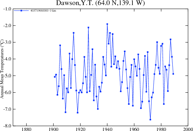 Climate graph of 1897 2008 air average temperaturas of Dawson City, Yukon, Canada